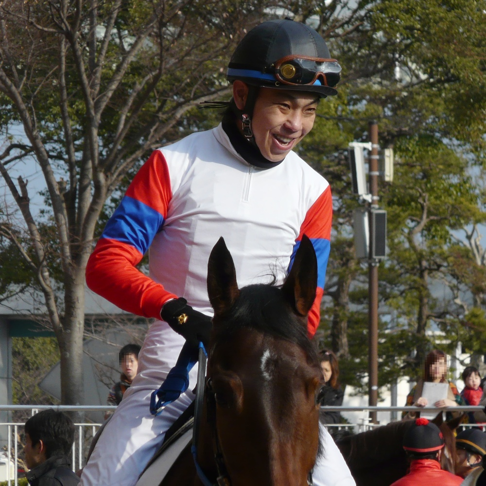 Hiroyuki-Uemura20120204